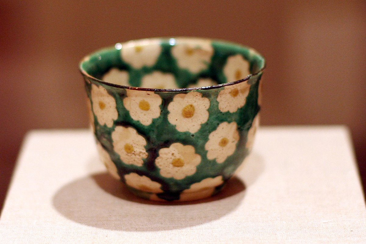 Ogata Kenzan (Japanese, 1663-1743). Side Dish (Mukozuke) with Camelia Design, 18th century. Stoneware with enamel background and paper-resist blossoms with enamel centers. Brooklyn Museum, Purchase gift of the J. Aron Charitable Foundation, Inc., 78.208. Wikipedia Loves Art at the Brooklyn Museum This photo of item # [1] at the Brooklyn Museum was contributed under the team name "shooting_brooklyn" as part of the Wikipedia Loves Art project in February 2009. Brooklyn Museum The original photograph on Flickr was taken by shooting brooklyn—please add a comment to the original Flickr page whenever a use has been made on Wikipedia or another project. Project galleries on Flickr: this institution, this team